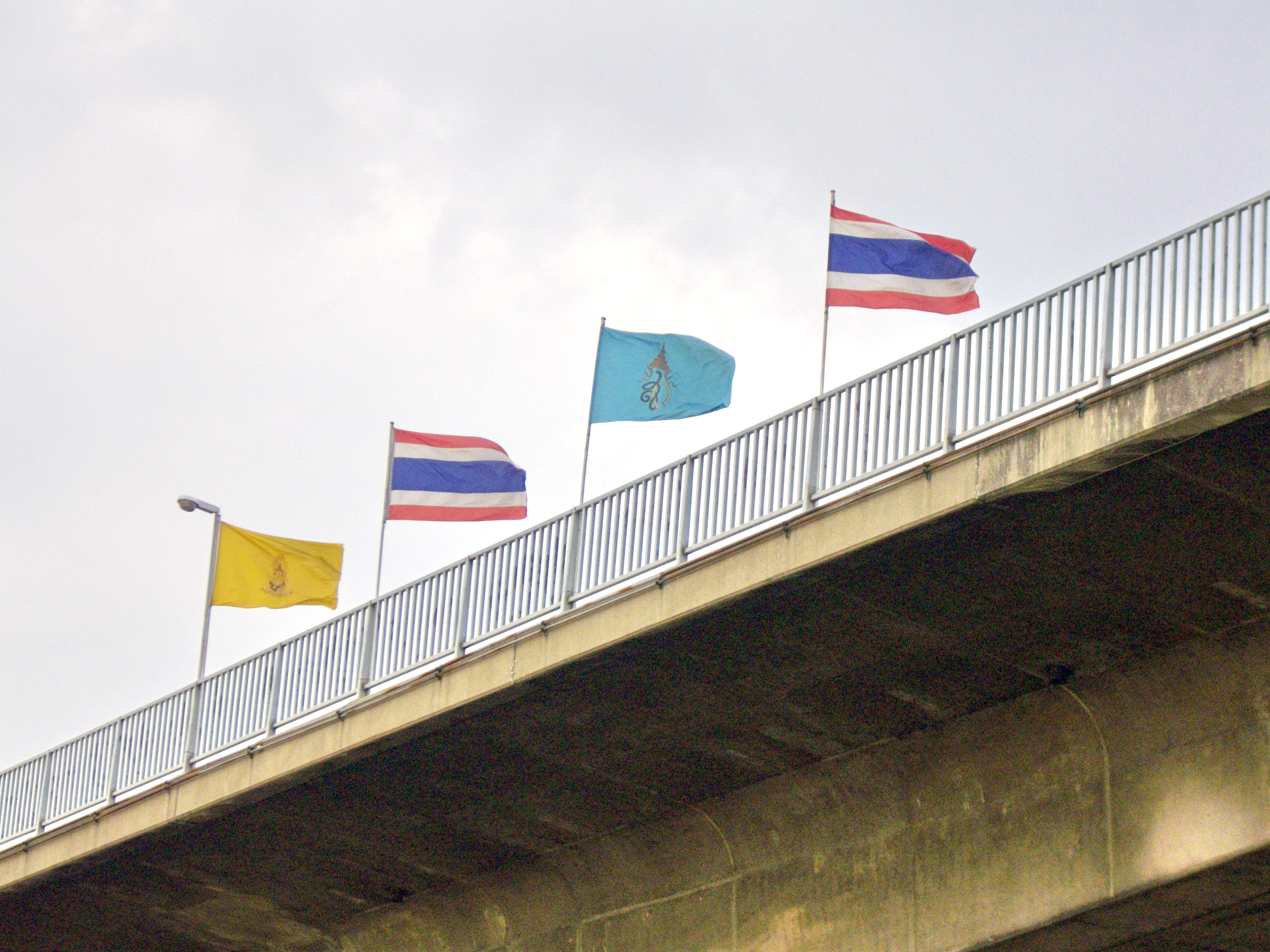 Thai flags and the flag of Their Masjesty King and Queen of Thailand flown on the King Taksin Bridge, Sathorn, Bangkok.